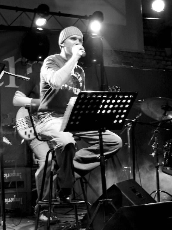 Costa Rican jazz band Escats playing a concert; Luis Alonso Naranjo in foreground